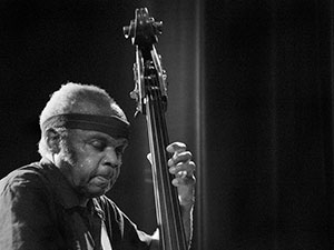 Henry Girmes